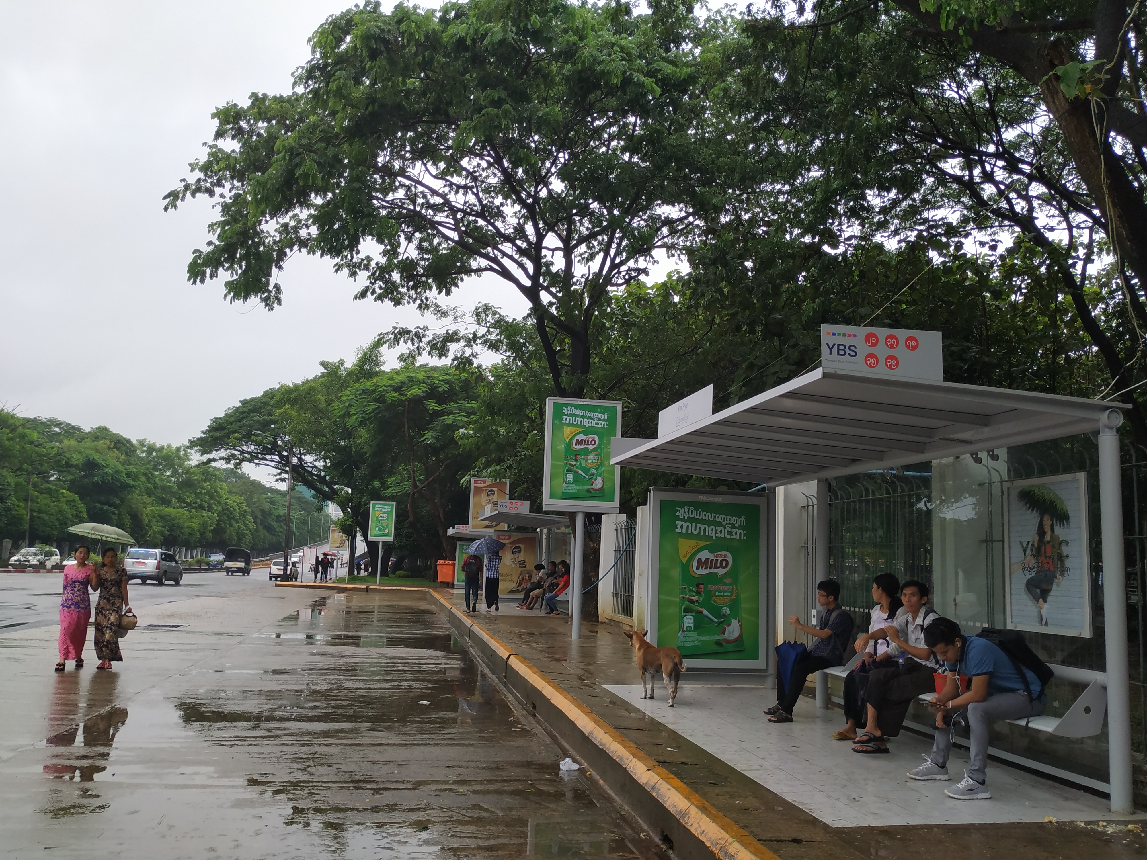 YBS Yin Pyin Bus Stop, Pyay Road, Yangon မြန်မာဘာသာ: ဝိုင်ဘီအက်စ် ရင်ပြင်ကားမှတ်တိုင်၊ ပြည်လမ်း၊ ရန်ကုန်